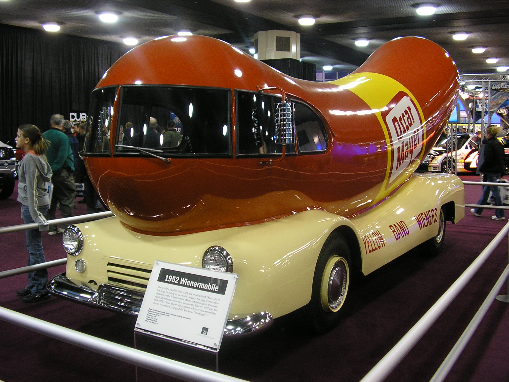 An Oscar Mayer Wienermobile at NAIAS 2005. Note: Not the original Wienermobile, but similar. Image taken by MrMiscellanious on January 21, en:2005 and released under the GNU FDL, providing there isn't an issue with the copyrighted logo in the picture.